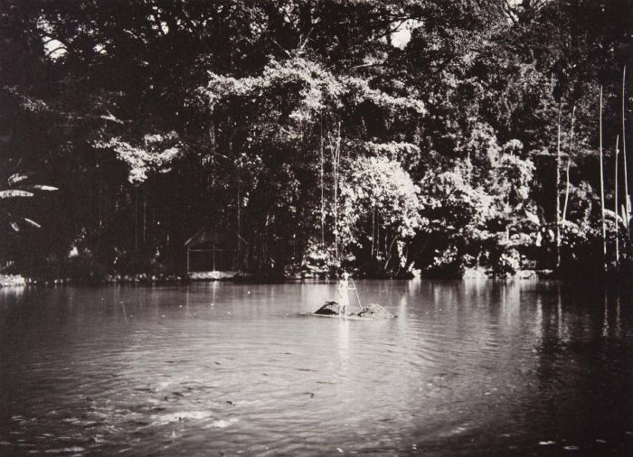 Pond with sacred fishes, Cigugur